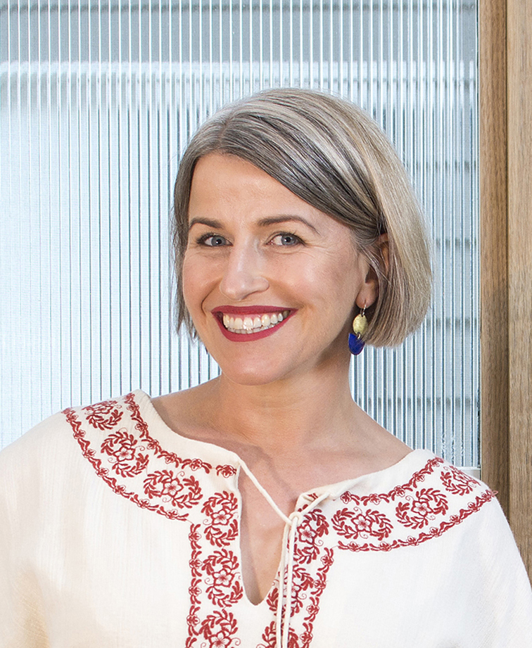 Masterchef Australia winner Emma Dean in her prizewinning SMEG kitchen in her Northcote home. Emma is wearing a top by Mesop and earrings by Victoria Mason who are both Melbourne designers.